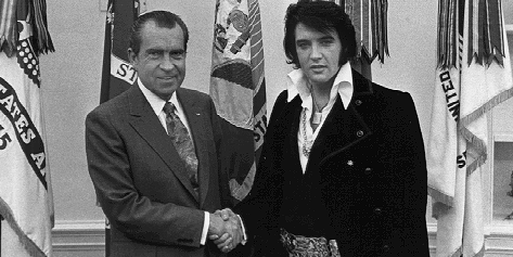 Of all the requests made each year to the National Archives for reproductions of photographs and documents, one item has been requested more than any other: the photograph of Elvis Presley and Richard M. Nixon shaking hands on the occasion of Presley's December 21, 1970, visit to the White House.